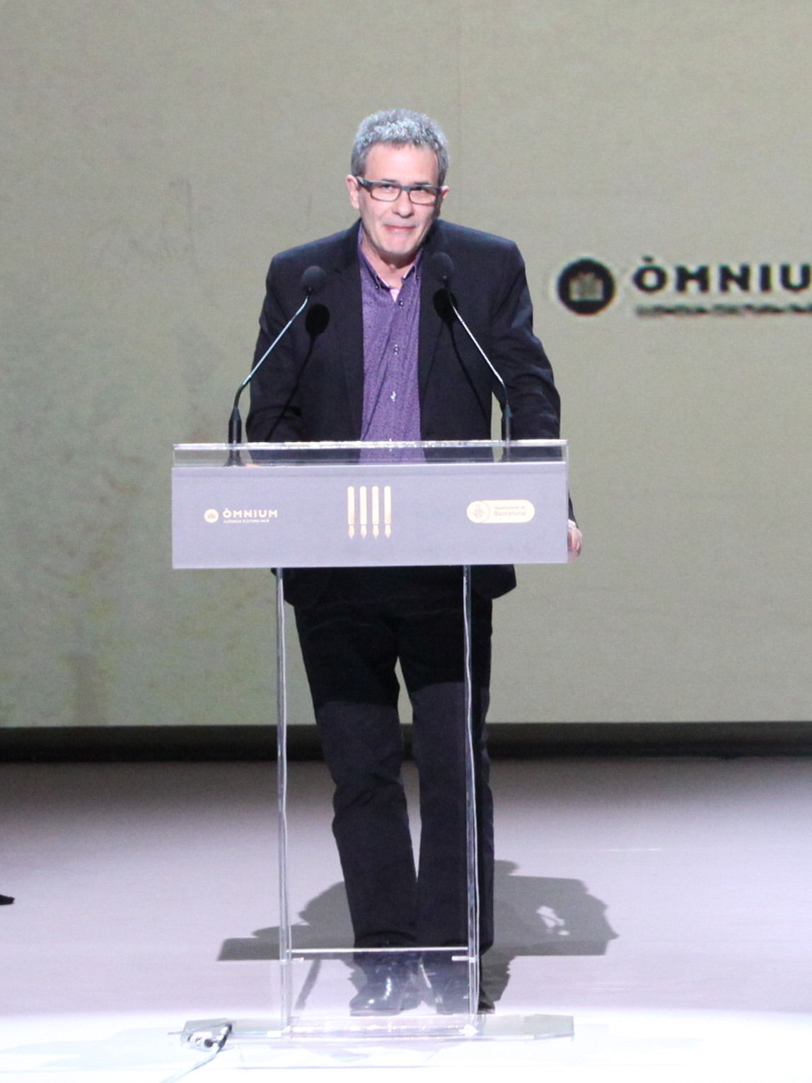 Festa de les Lletres Catalanes 2014. + Fotos: Òmnium / Ramon Boadella